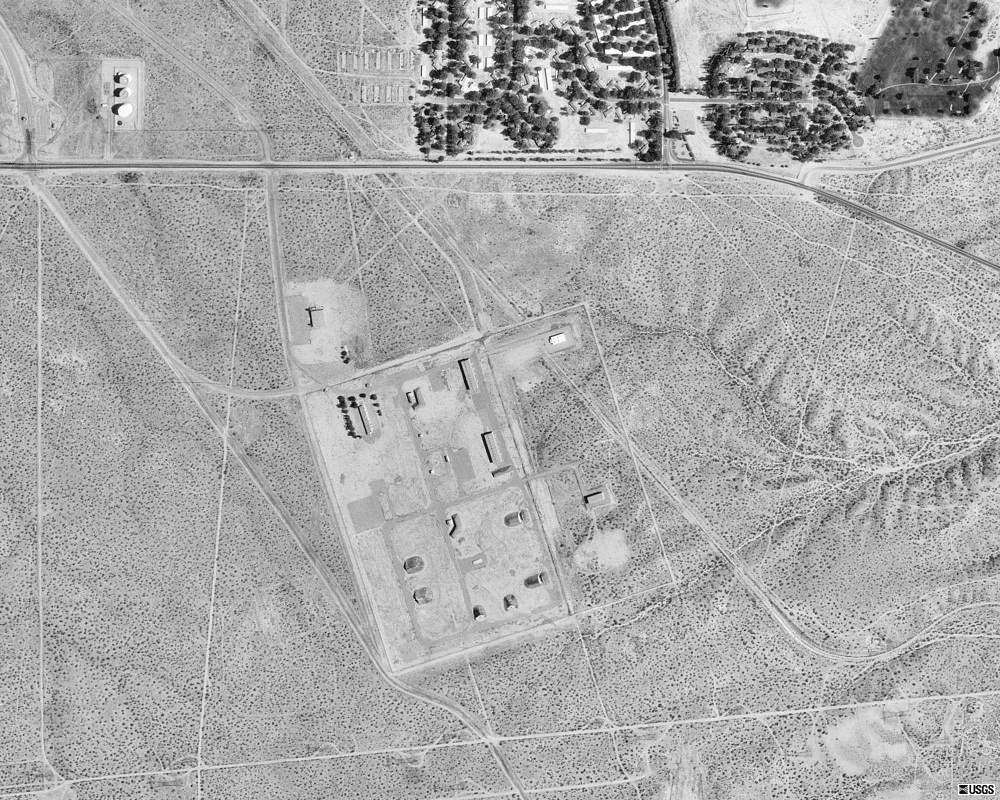 Future site of United States Penitentiary, Victorville on the grounds of the former George Air Force Base in San Bernardino County, California, ten years before the prison was opened in 2004.